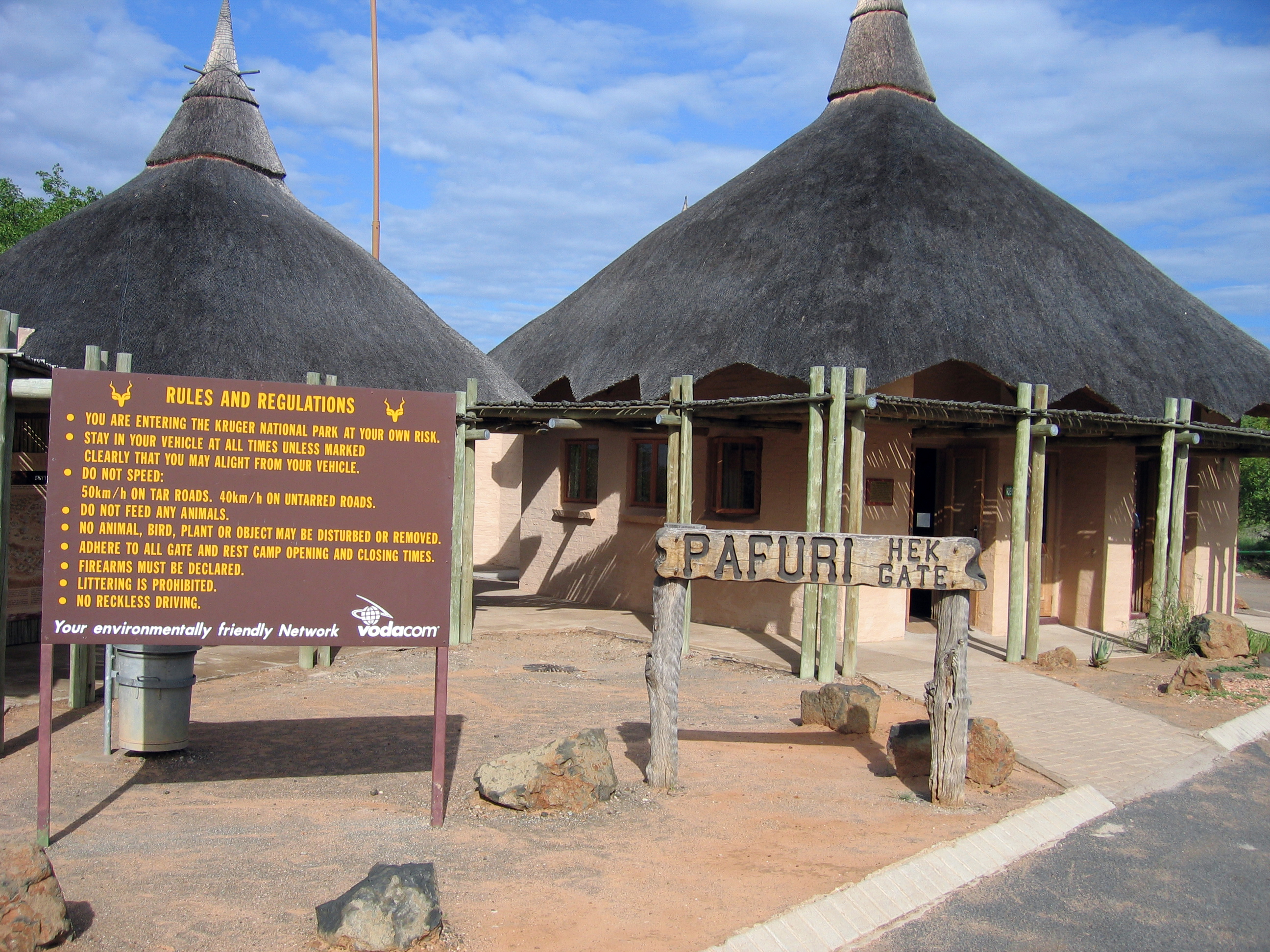 Pafuri Gate (North Entrance Kruger Park)